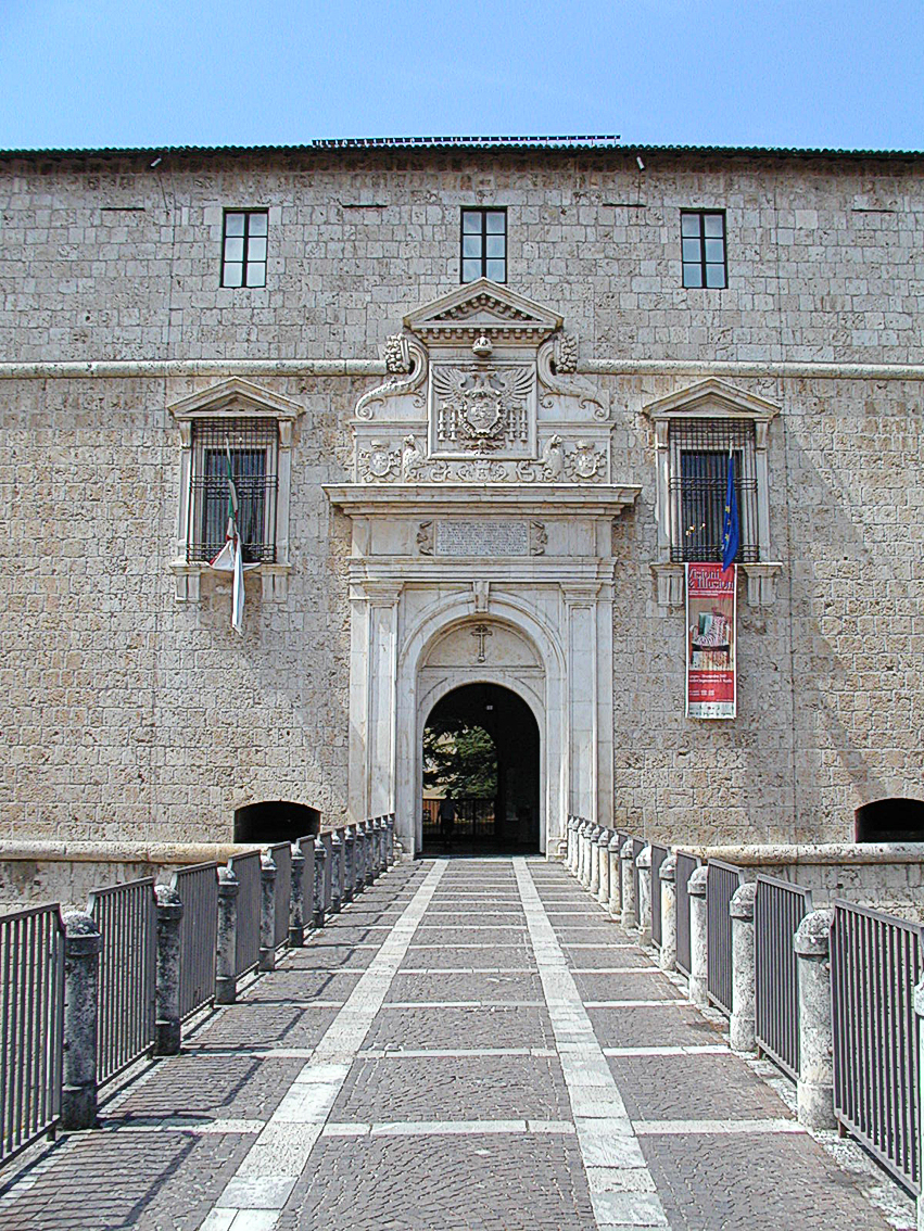 Forte Spagnolo ("Spanish Fortress"), gate